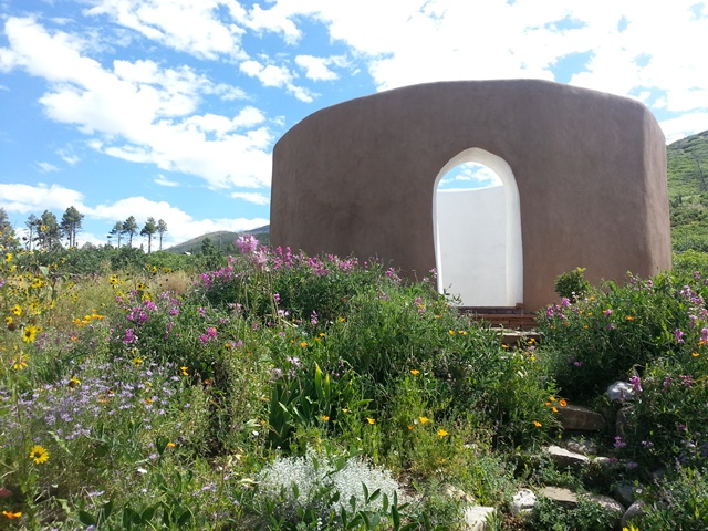 Photo by Joe Brodnik